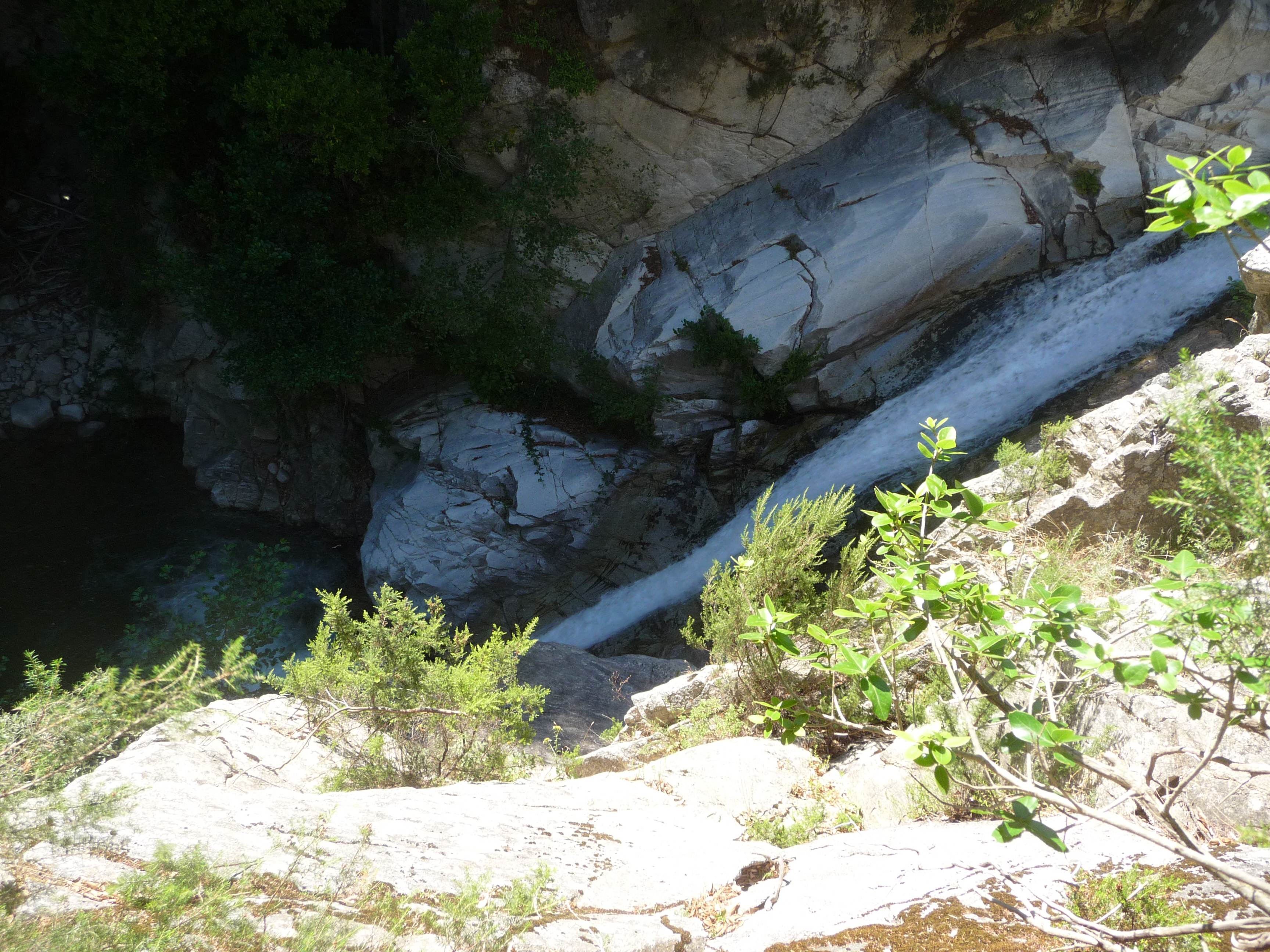 Pietracupa fall